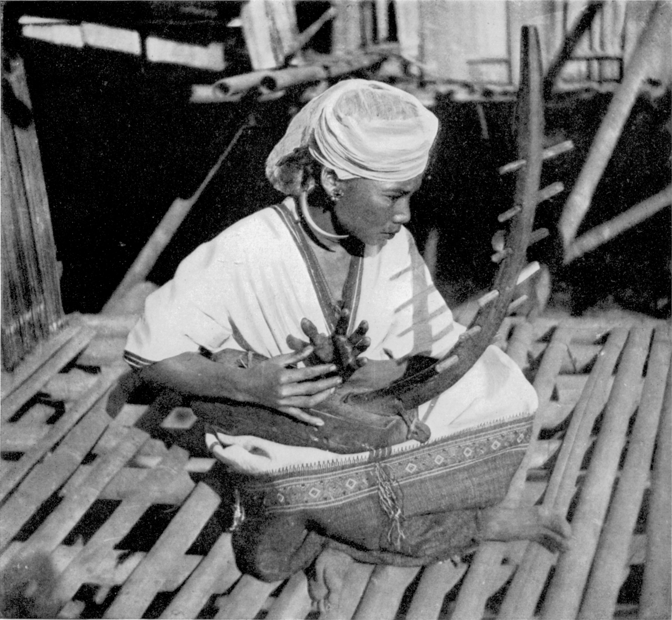 A native harp